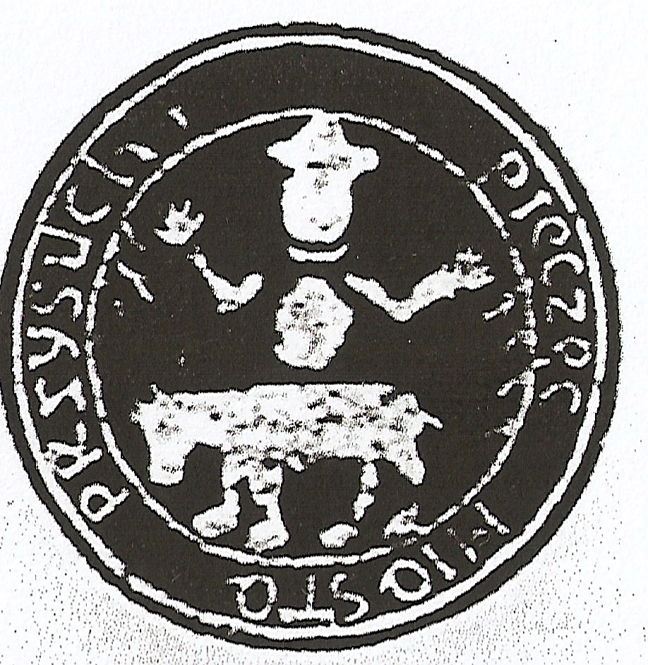 Seal of Przysucha from 1779